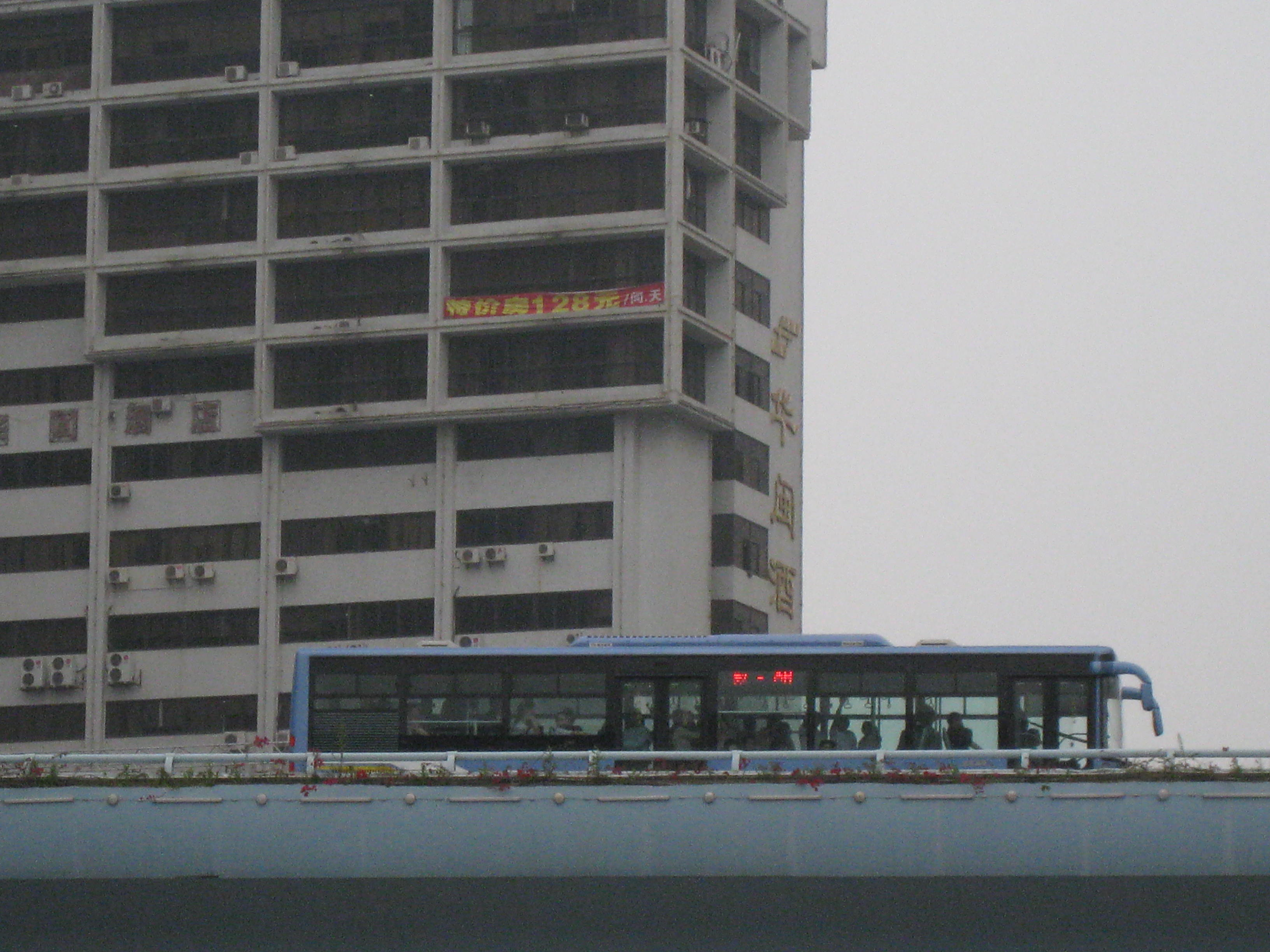 Running Xiamen BRT